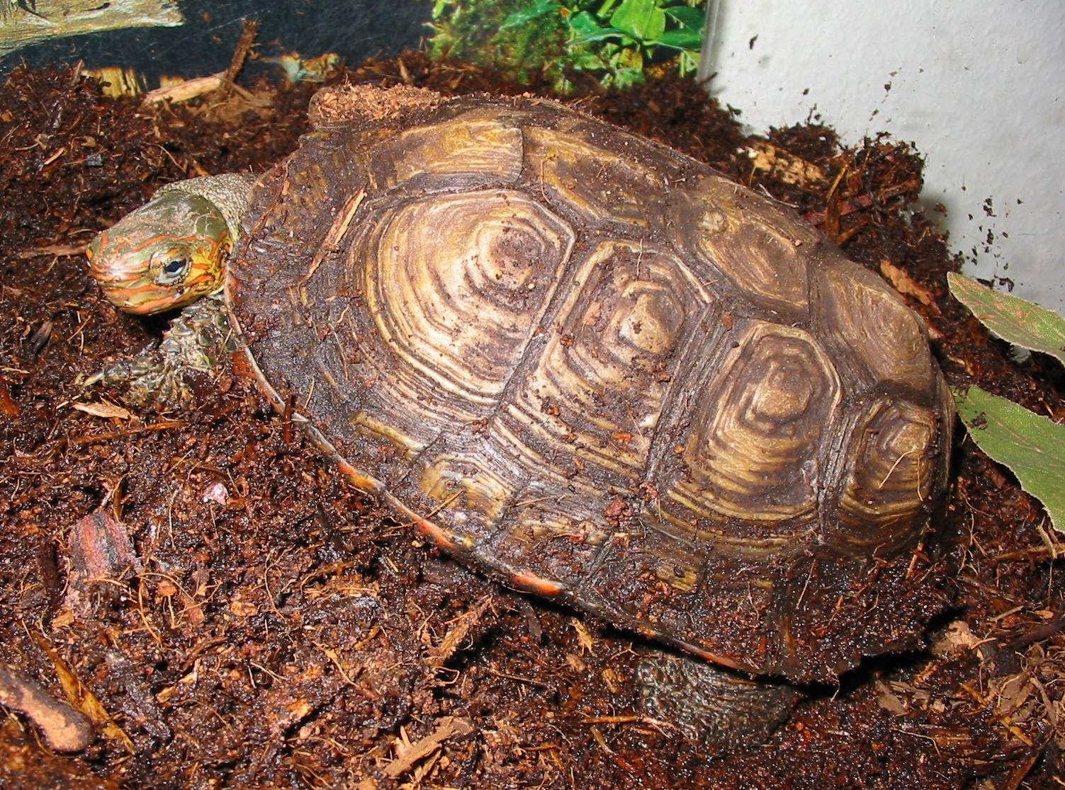 Incised wood turtle, Rhinoclemmys pulcherrima incisa, animal of terrarium: "Kassiopeia", age: 10 ... 11 years